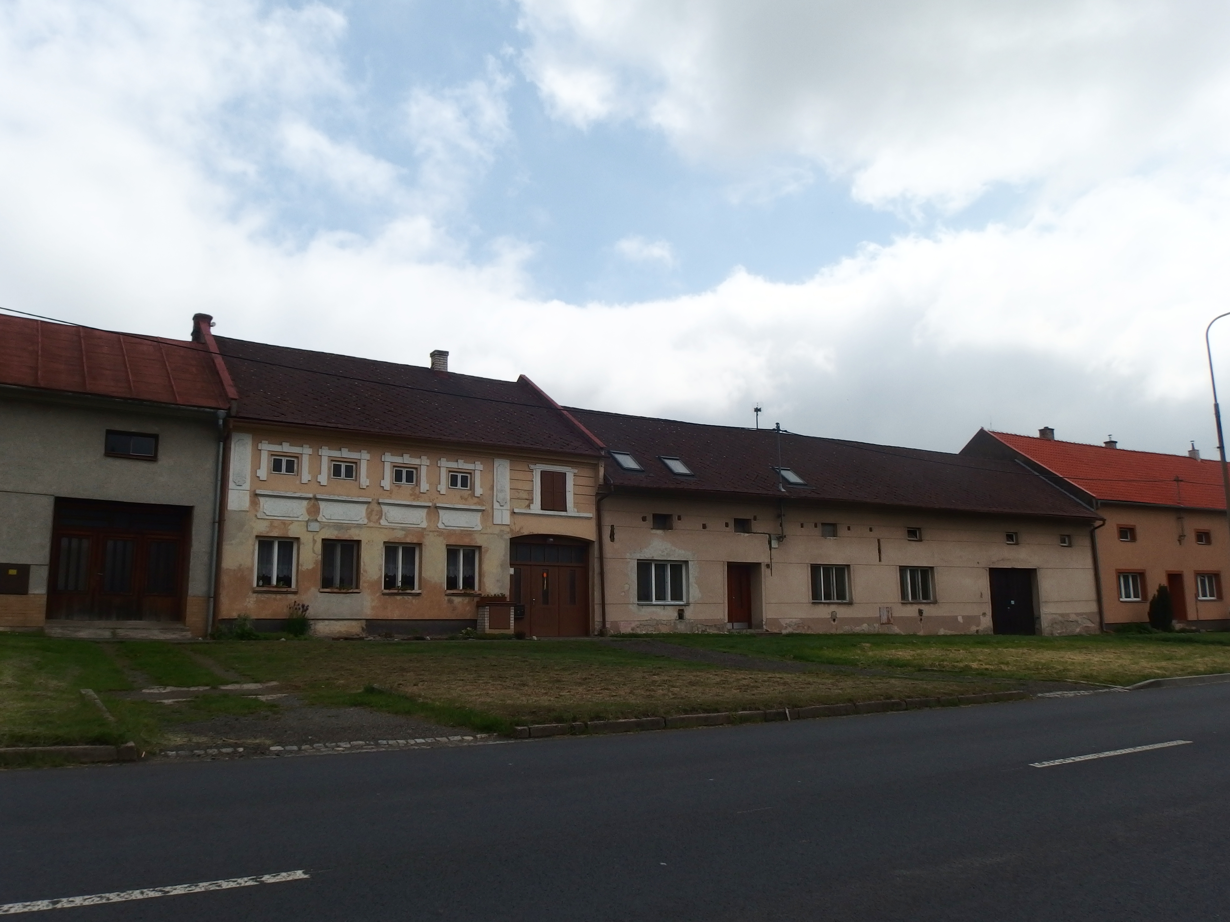 Holešov, Kroměříž District, Czech Republic, part Dobrotice.